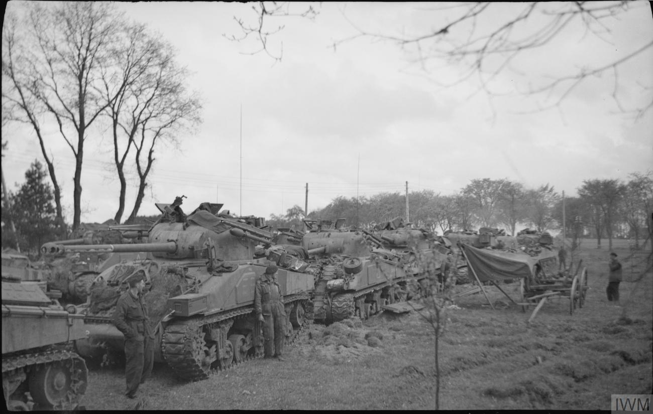 The British Army in North-west Europe 1944-45 Sherman tanks of the 1st Coldstream Guards, fitted with 60lb Typhoon aircraft rockets on the turret sides, 28 April 1945.